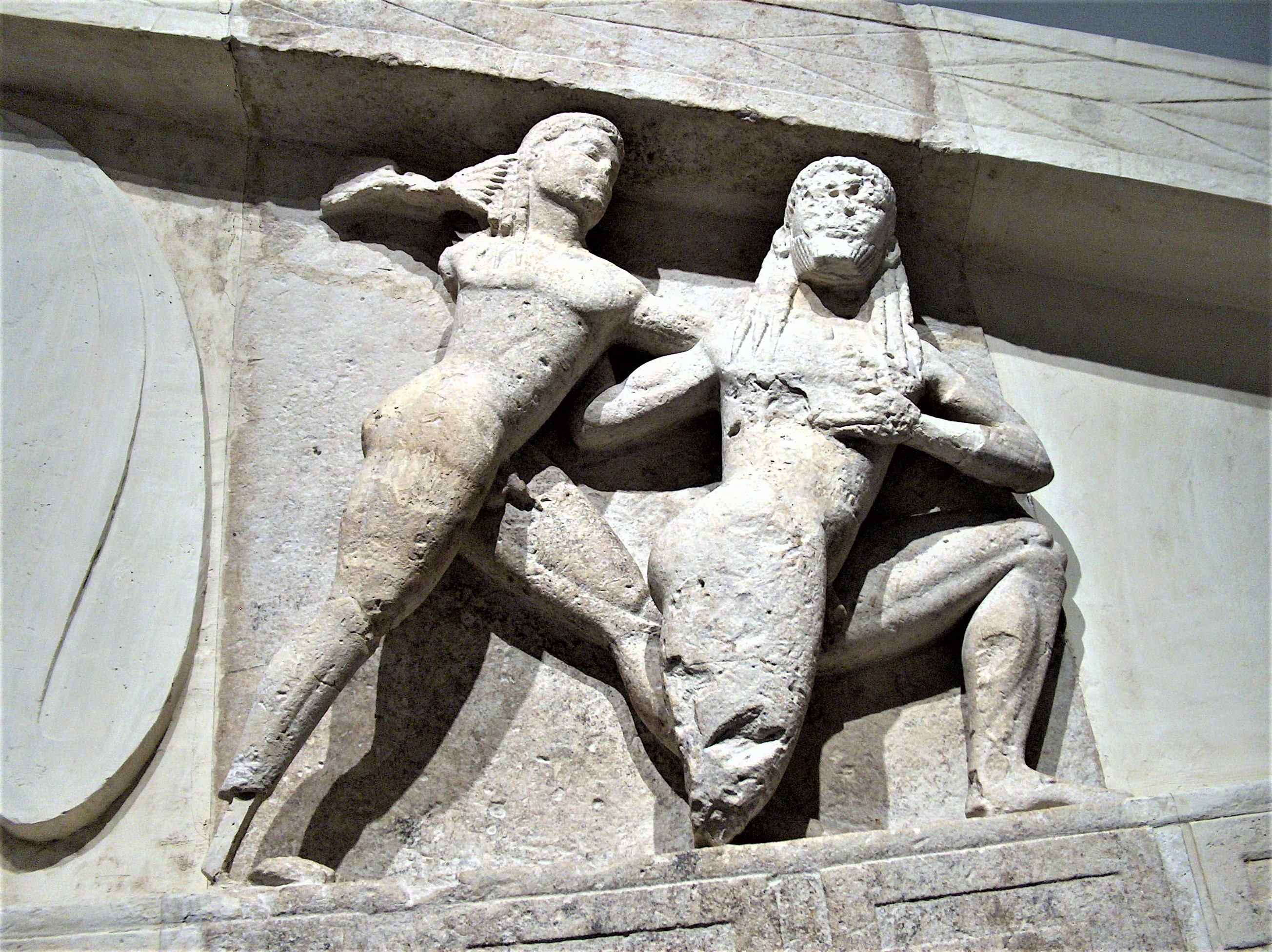 Titanomachy at the Gorgon pediment at Artemis Temple in the Corfu museum